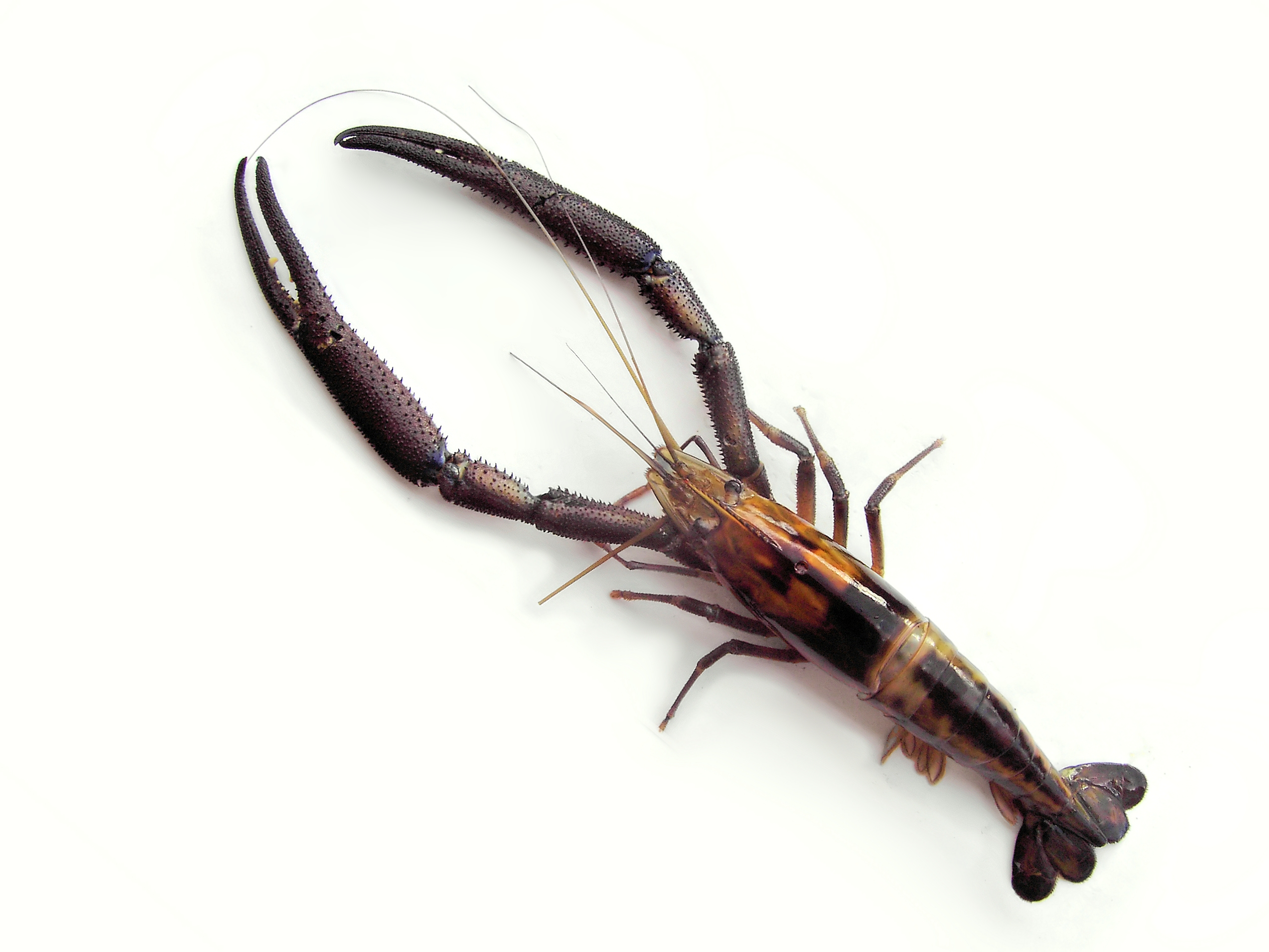 Big-claw River Shrimp at Dominica, W.I. Studio (kitchen table) image.